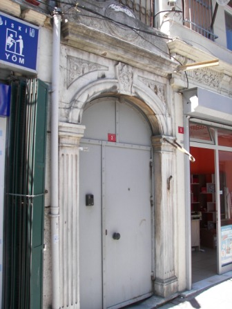 Yambol synagogue